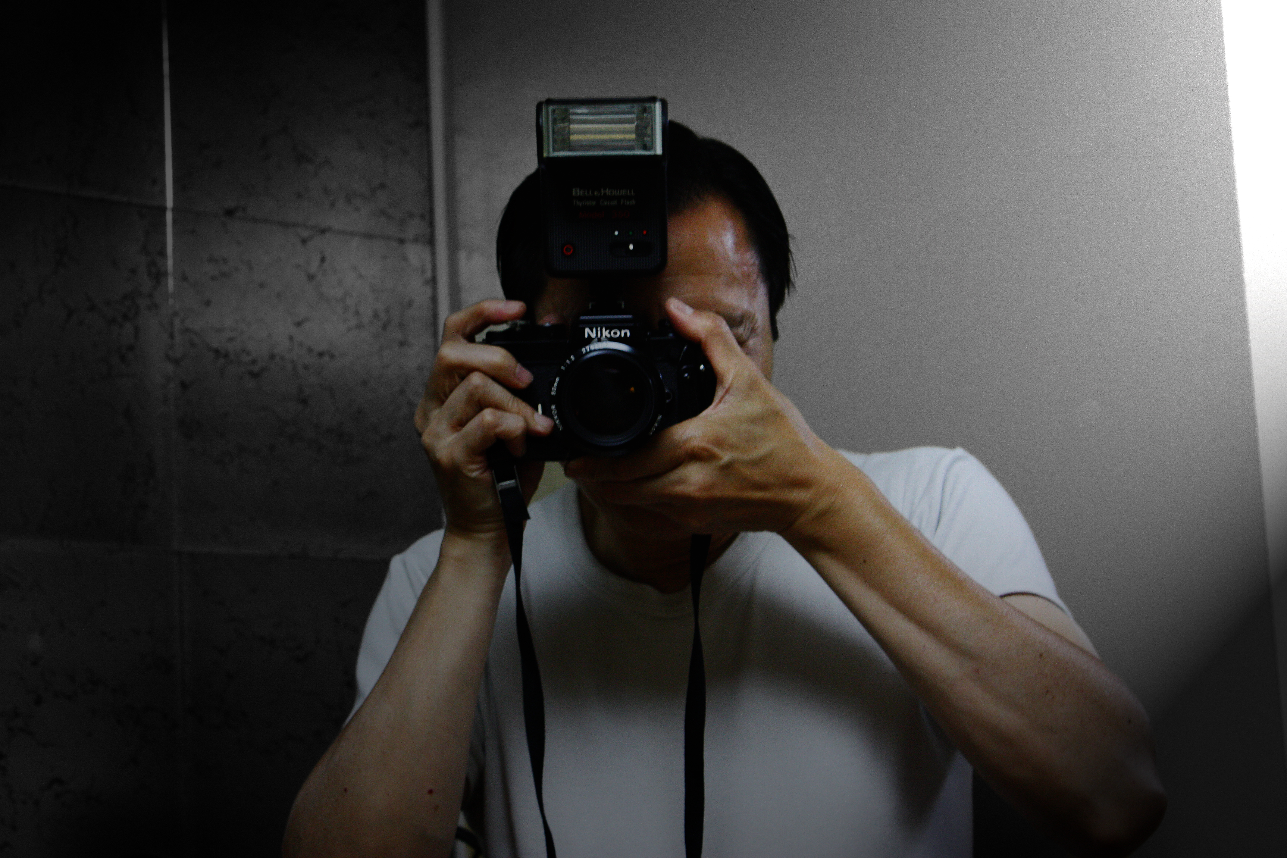 My dad with his old Nikon SLR.